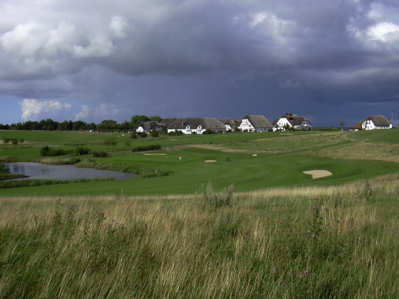 Balmer See, Red Course, 9th Fairway with Lake